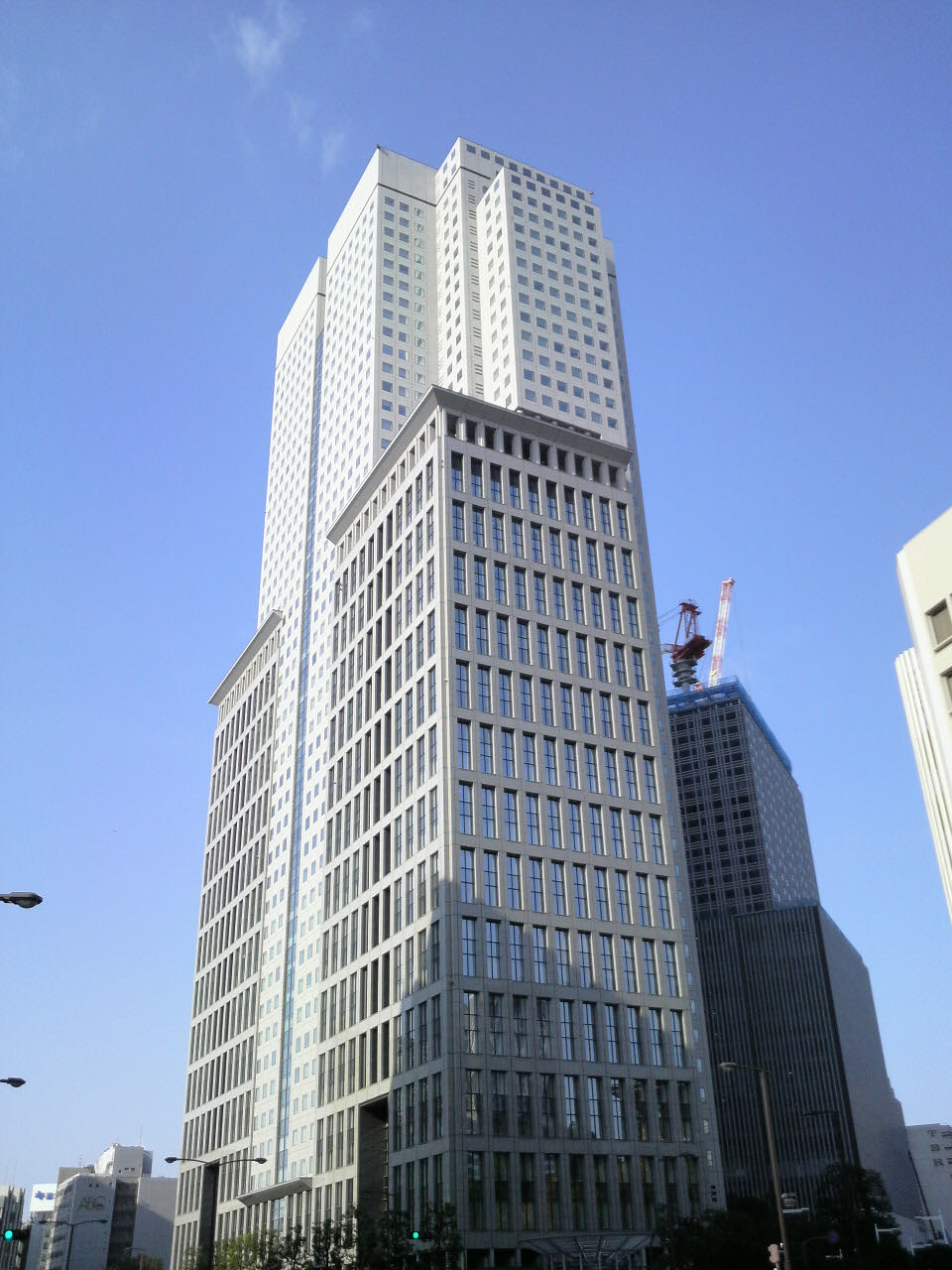 sannnou park